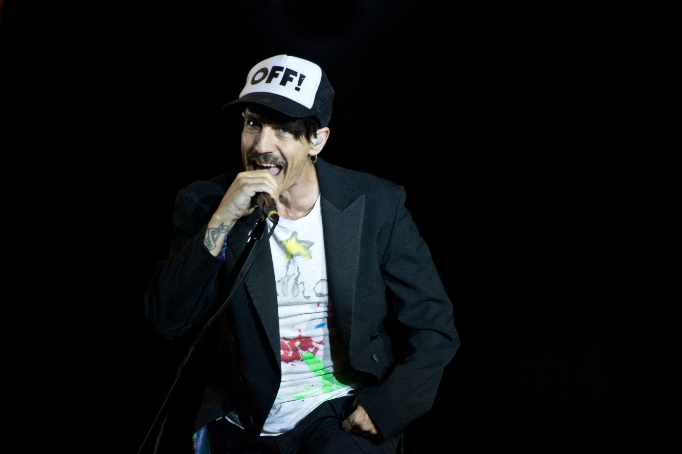 Red Hot Chili Peppers in Rock in Rio Madrid 2012.